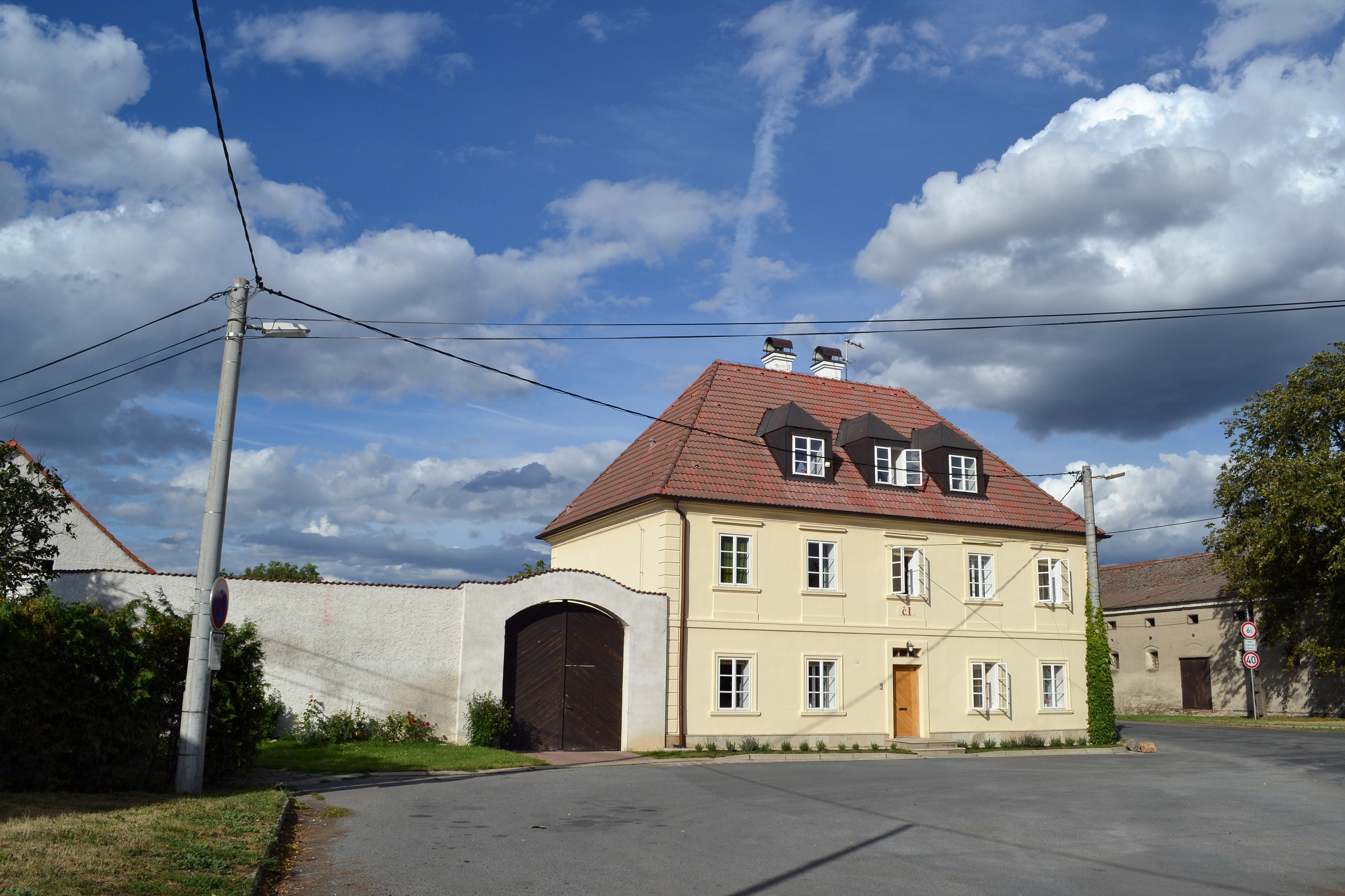 Square in the village Noutonice, part of village Lichoceves, Central Bohemian Region, Czech Republic.